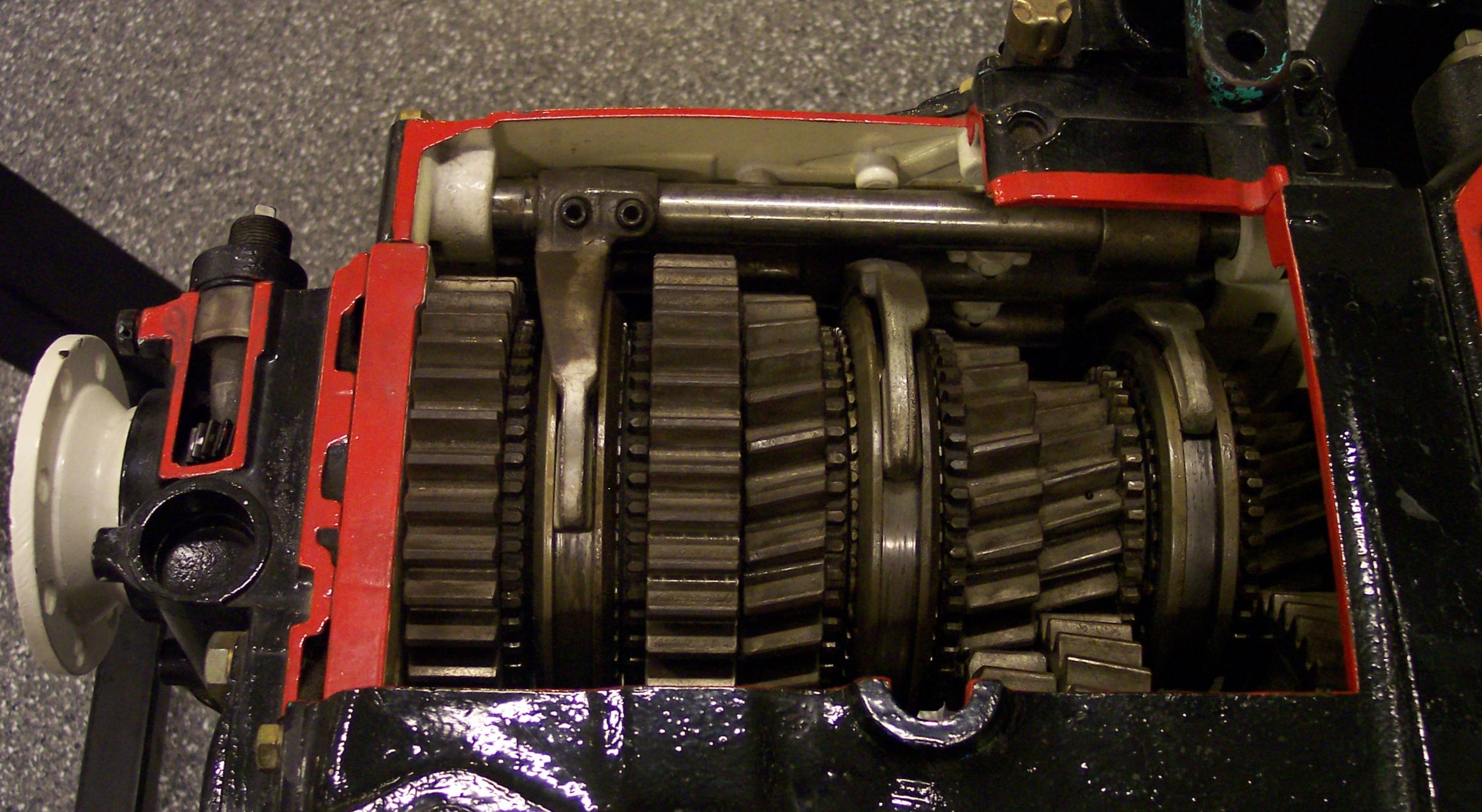 truck gear box cutaway (DAF Museum)